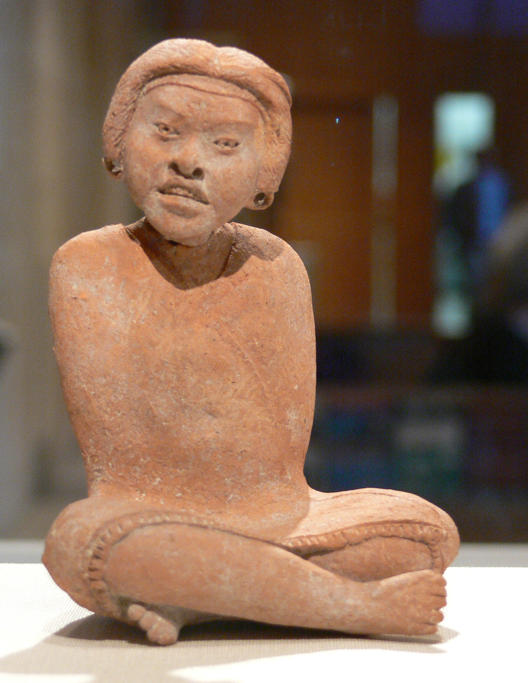 Seated Woman; c. 1500–1200 B.C.; Mexico, Guerrero, Xochipala culture, Pre-Classic period (c. 1600–100 B.C.); Ceramic; 11.1 x 8.0 x 7.3 cm Kimbell Art Museum, Fort Worth, Texas; AP 1971.04